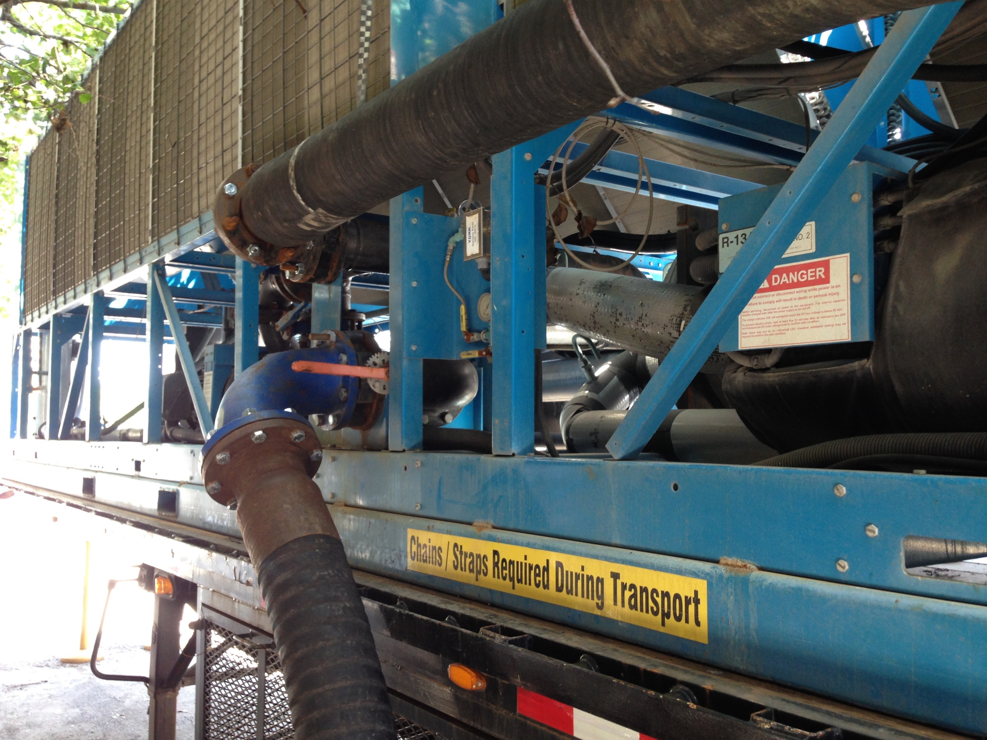 Rental chiller mounted on a trailer.